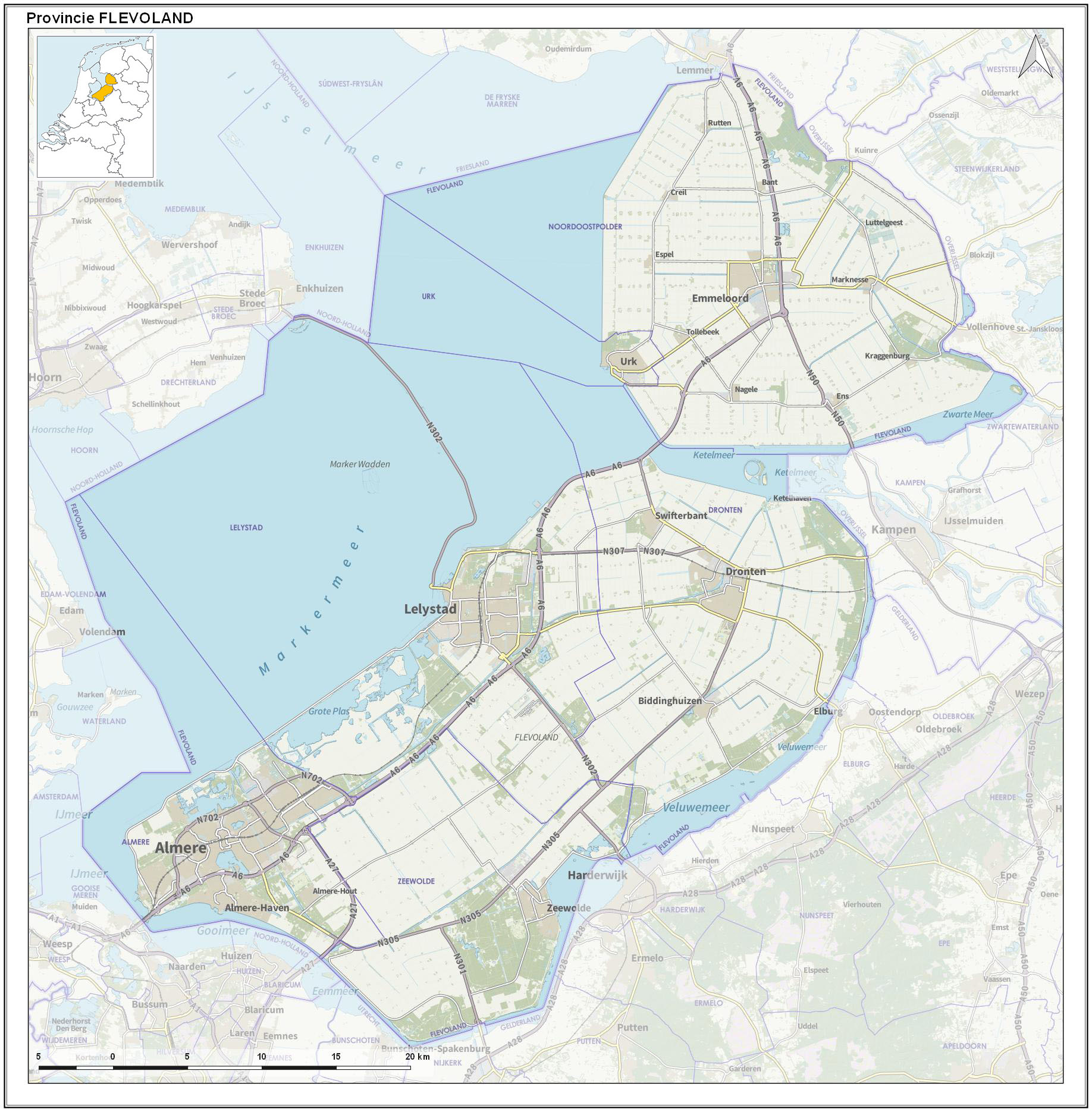 Toographic overview map of the Dutch Province of Flevoland as of 2018. Compiled by Jan-Willem van Aalst using Dutch Governmental open data (CC-BY Kadaster) and OpenStreetMap data (CC-BY OpenStreetMap contributors).